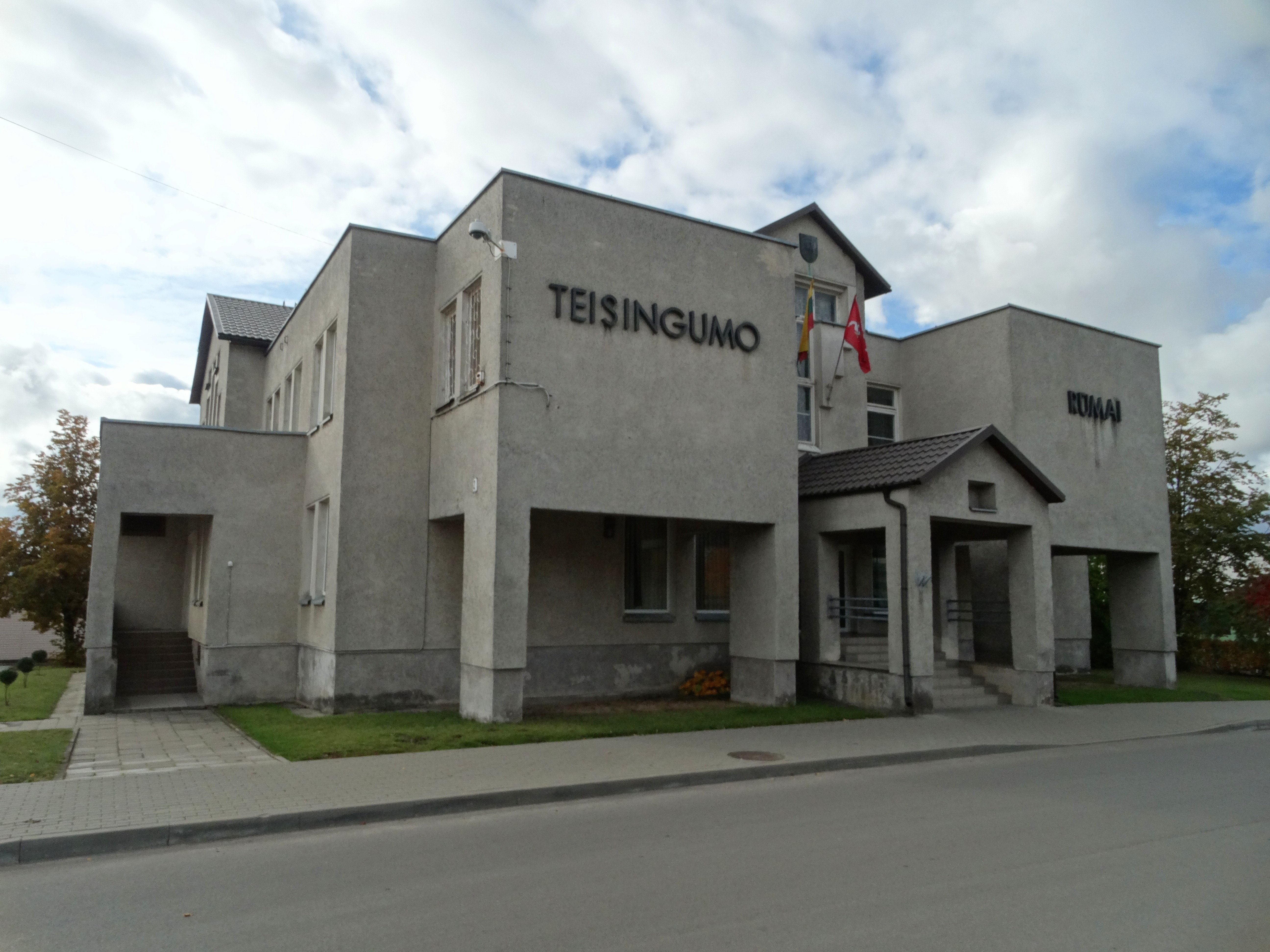 The House of Justice, Raseiniai, Lithuania